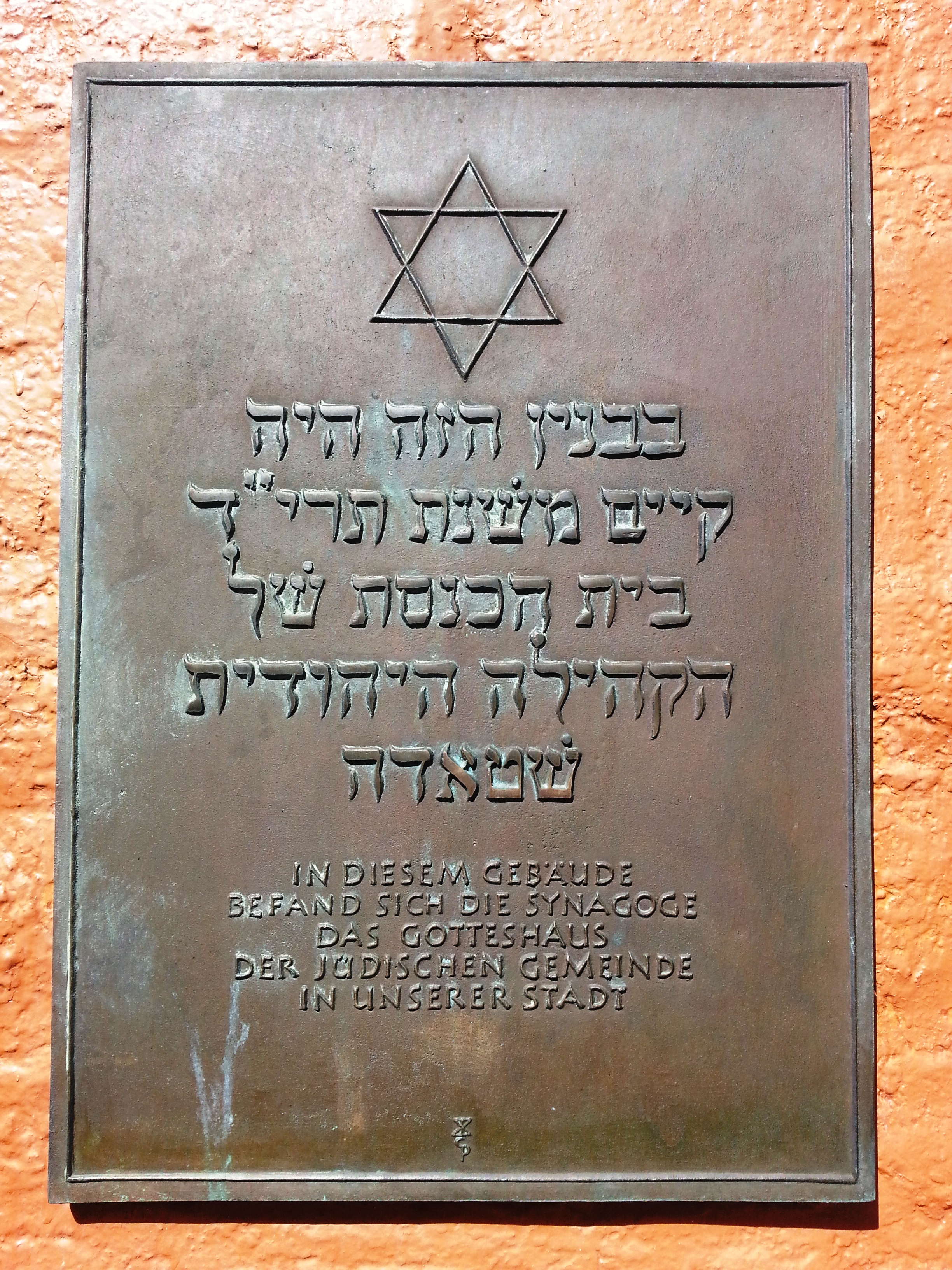 Plaque on the former Synagogue of Stade on Cosmaekirchhof street. The actual prayer hall was on the first floor and used as such between 1873 and 1908 by the Stade Synagogal Congregation (Synagogengemeinde Stade, est. by 1811, dissolved in 1941). This location, the timber-framed rear building of Hökerstraße #26, was at times addressed as Hökerstraße #27, however, technically it is accessible from the street Cosmaekirchhof on the northern façade of Ss. Cosmae et Damiani Church. Seen from east.